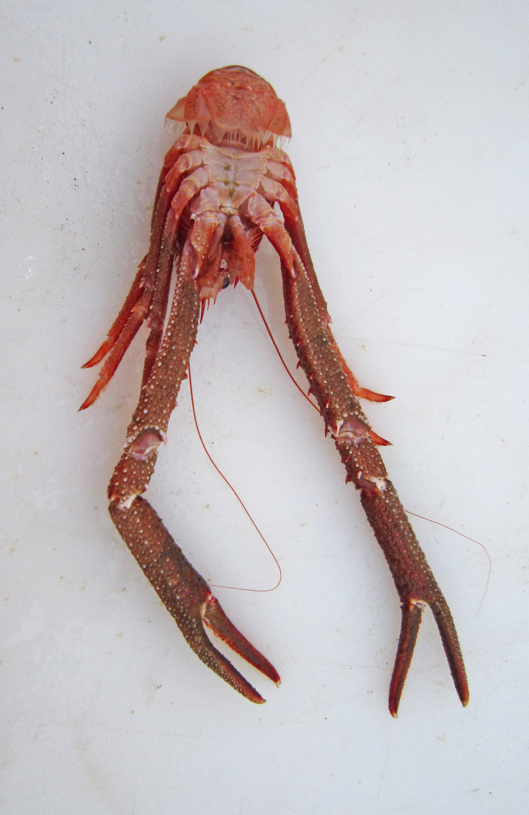 This is the underside of the same animal in the dorsal picture